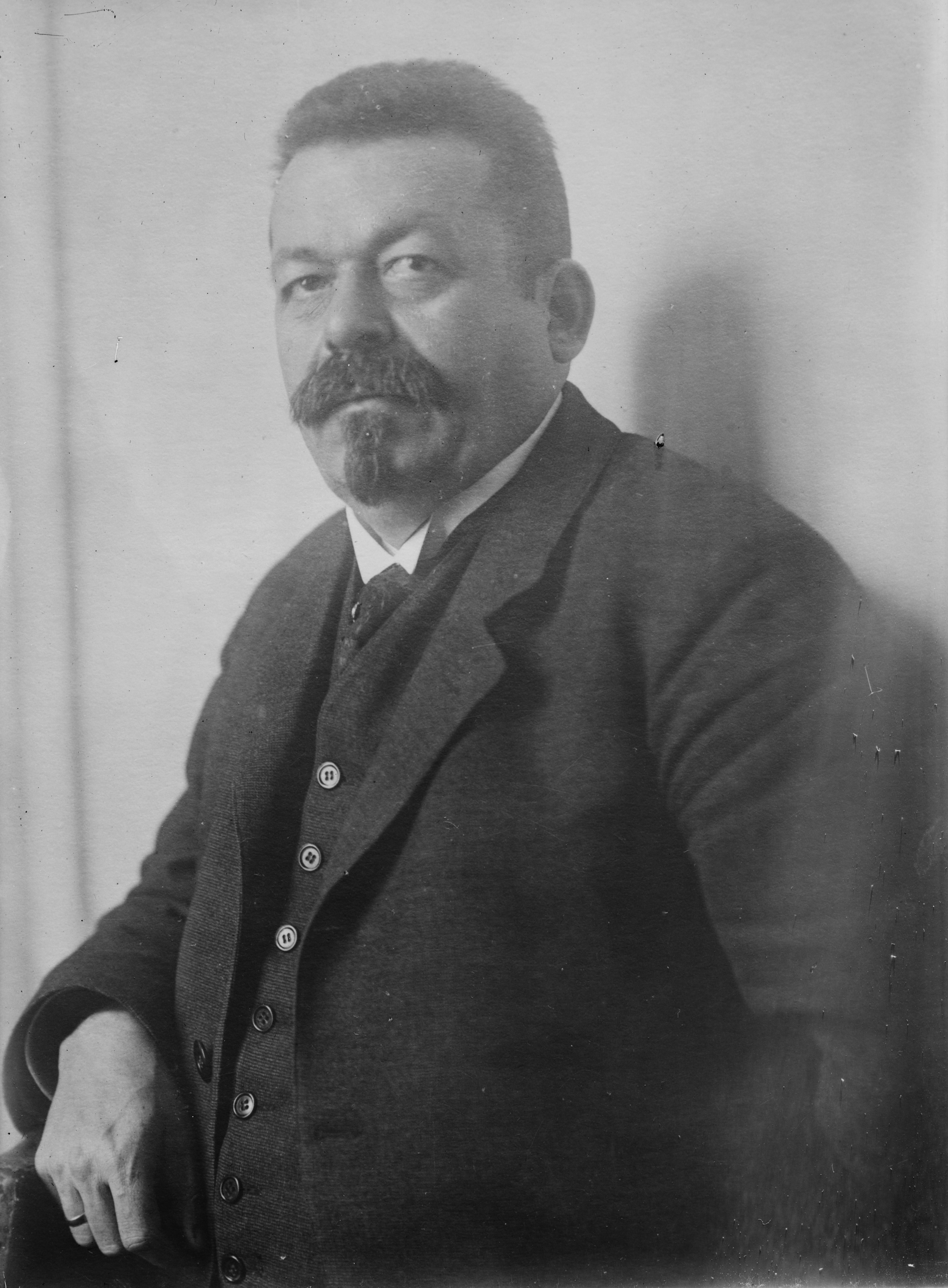 Title: Ebert Abstract/medium: 1 negative : glass ; 5 x 7 in. or smaller. Text on image: EBERT 5035-1 5034-14